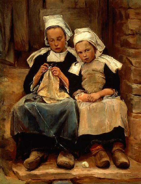 Work exhibited in the 1893 Columbian World's Exposition, National Museum of Women in the Arts